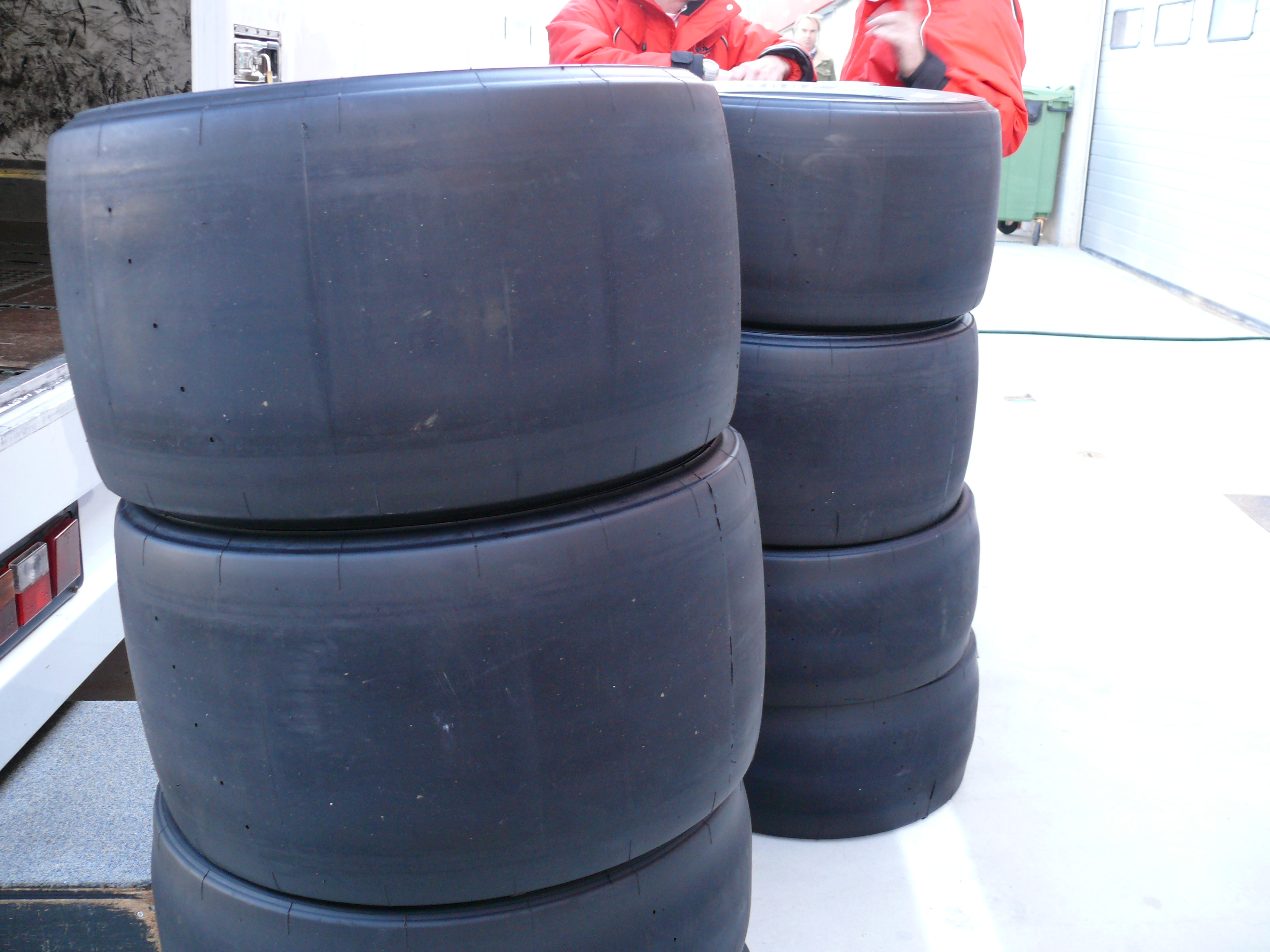 Slick tires used in Formula One